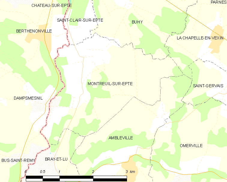 Map of French municipality Montreuil-sur-Epte